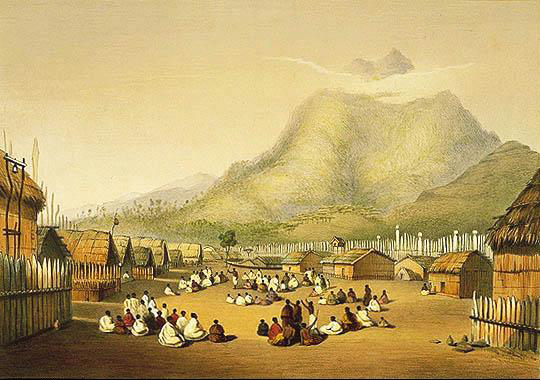 "Tu Kaitote" (Kaitotehe), the pā of Te Wherowhero, first Māori King. Taupiri mountain in the distance on the other side of the Waikato River (not visible).